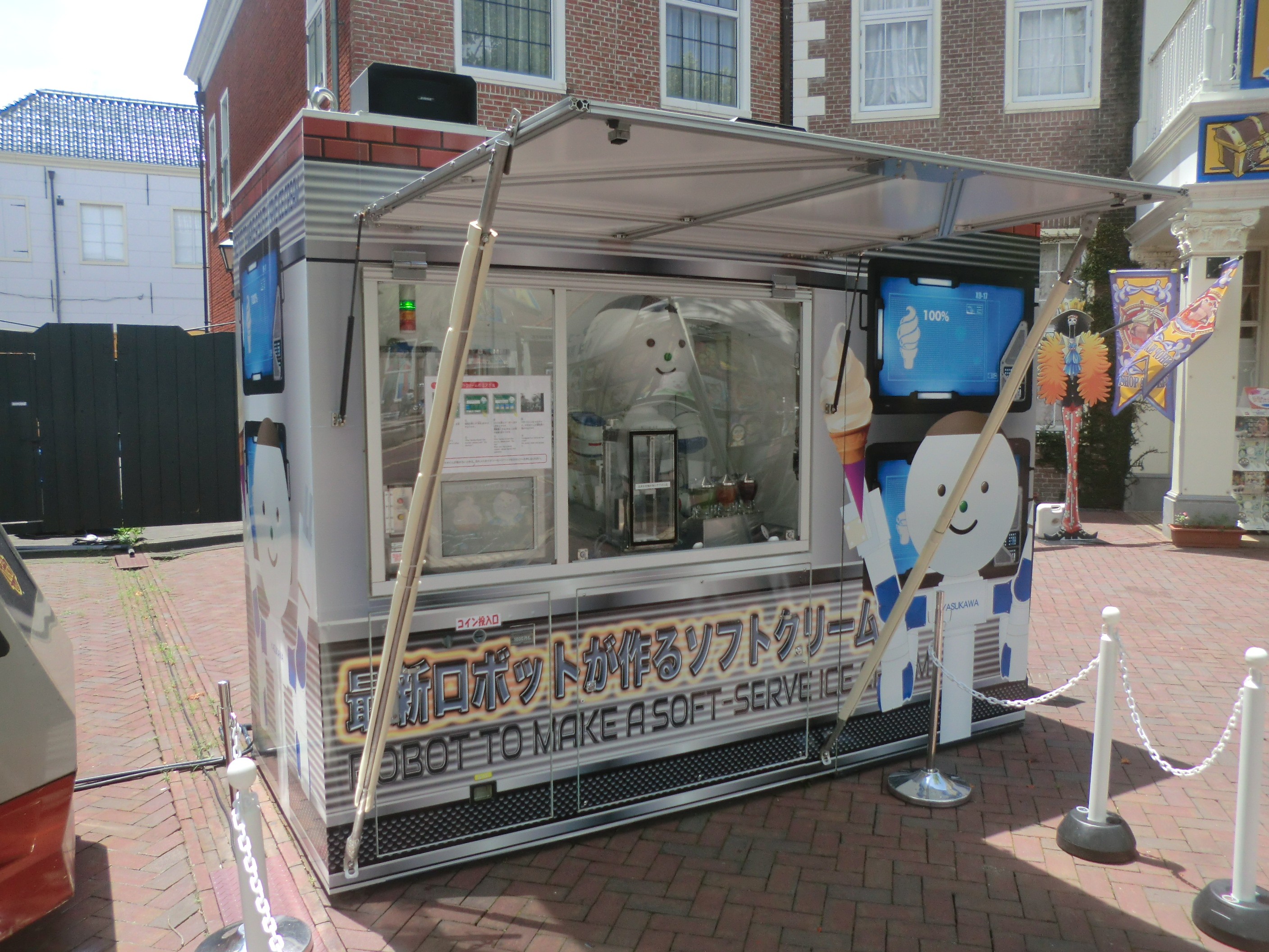 Soft serve ice cream selling robot "Yaskawa Kun" by Yaskawa Electric Corporation, at Huis Ten Bosch.